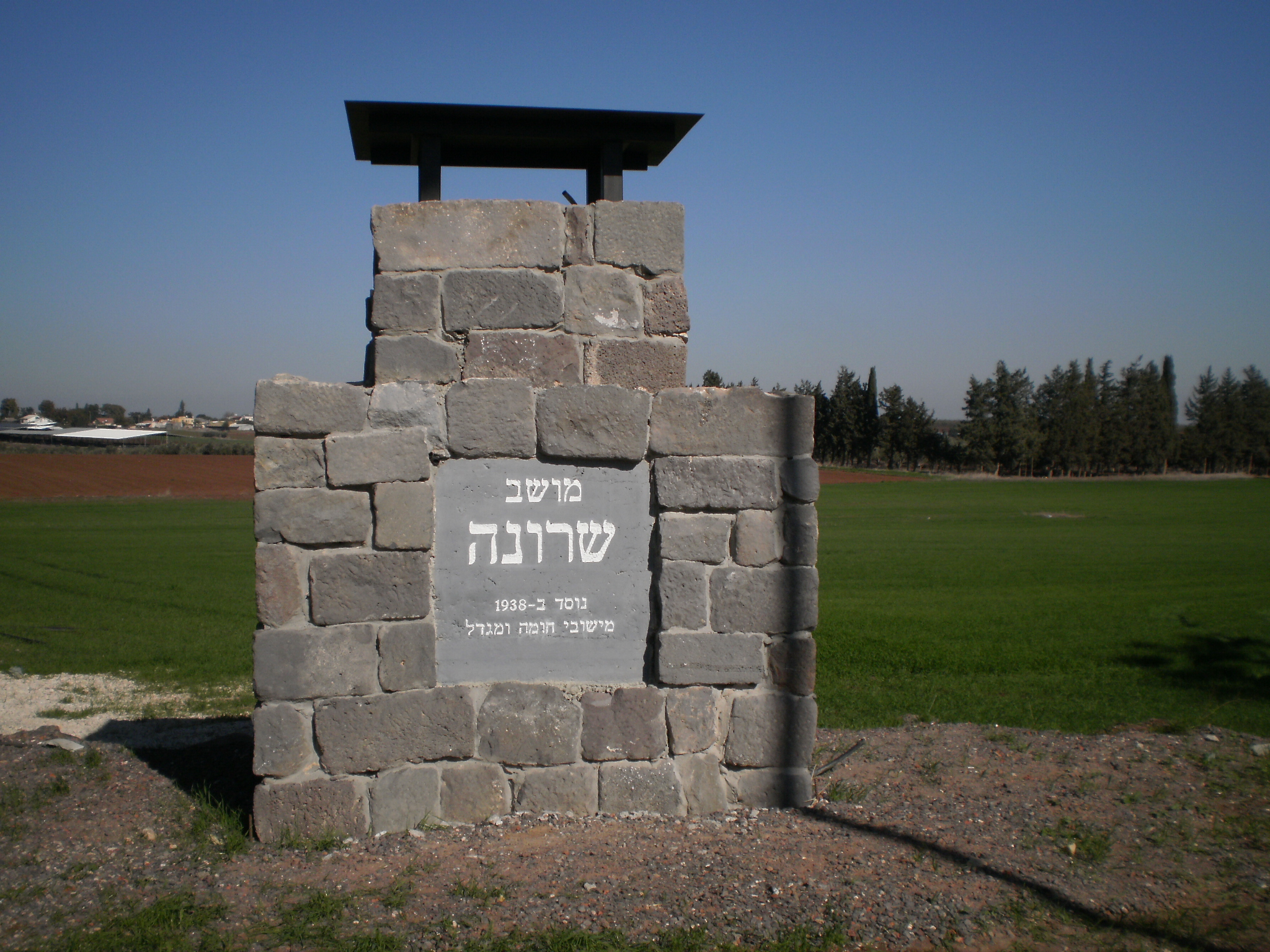 sign at the entrance of Moshav Sharona in Lower Galilee Regional Council, Israel